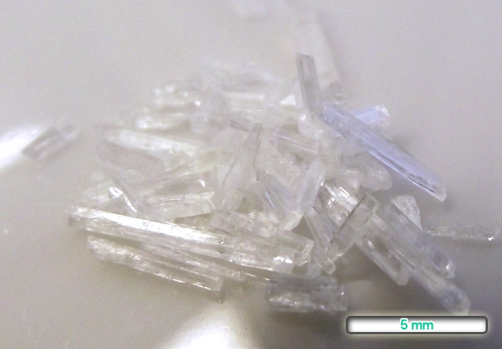 Photo of Strychnine nitrate, pure